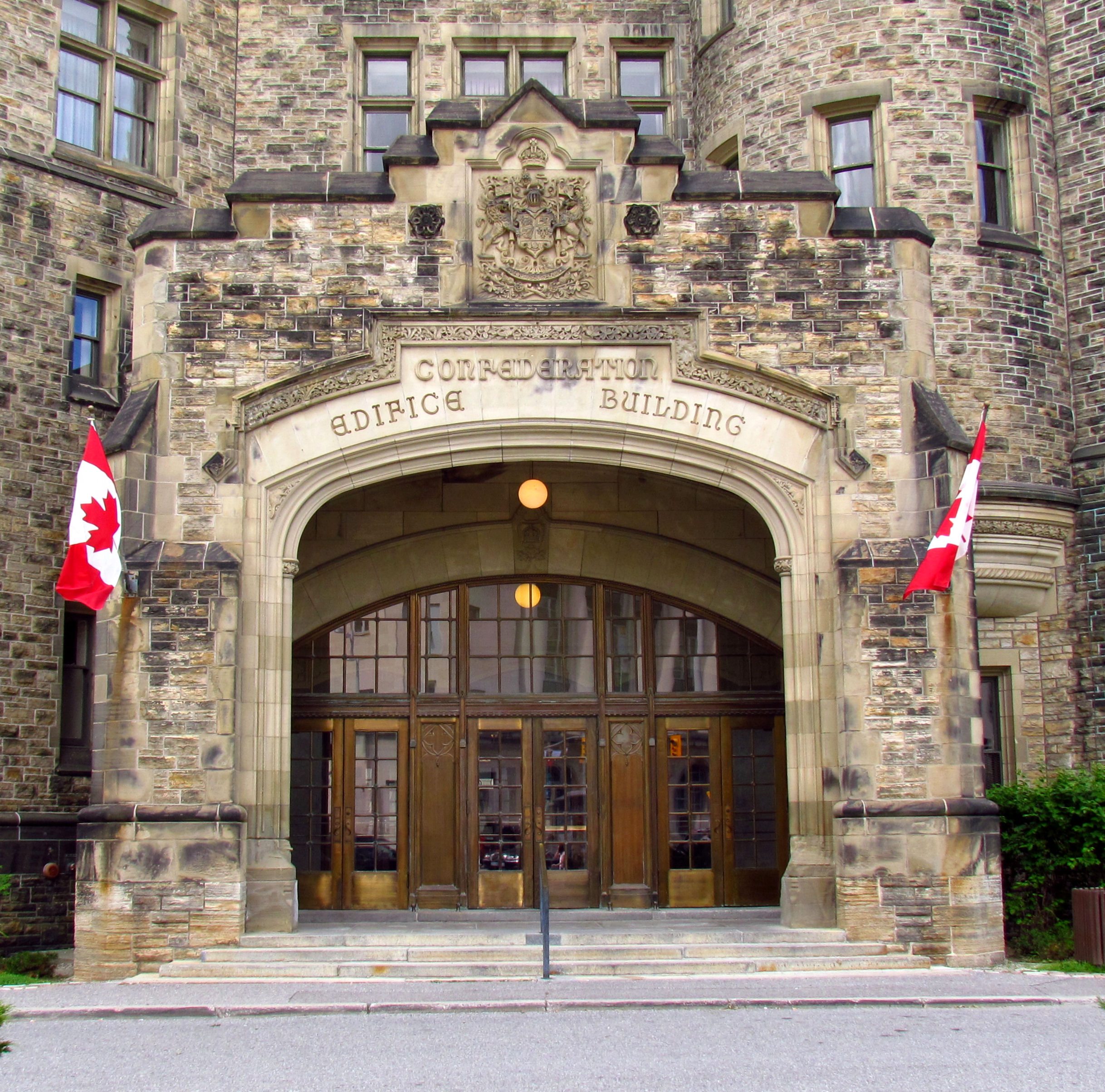 Front door of Confederation Building, Ottawa, Ontario, Canada